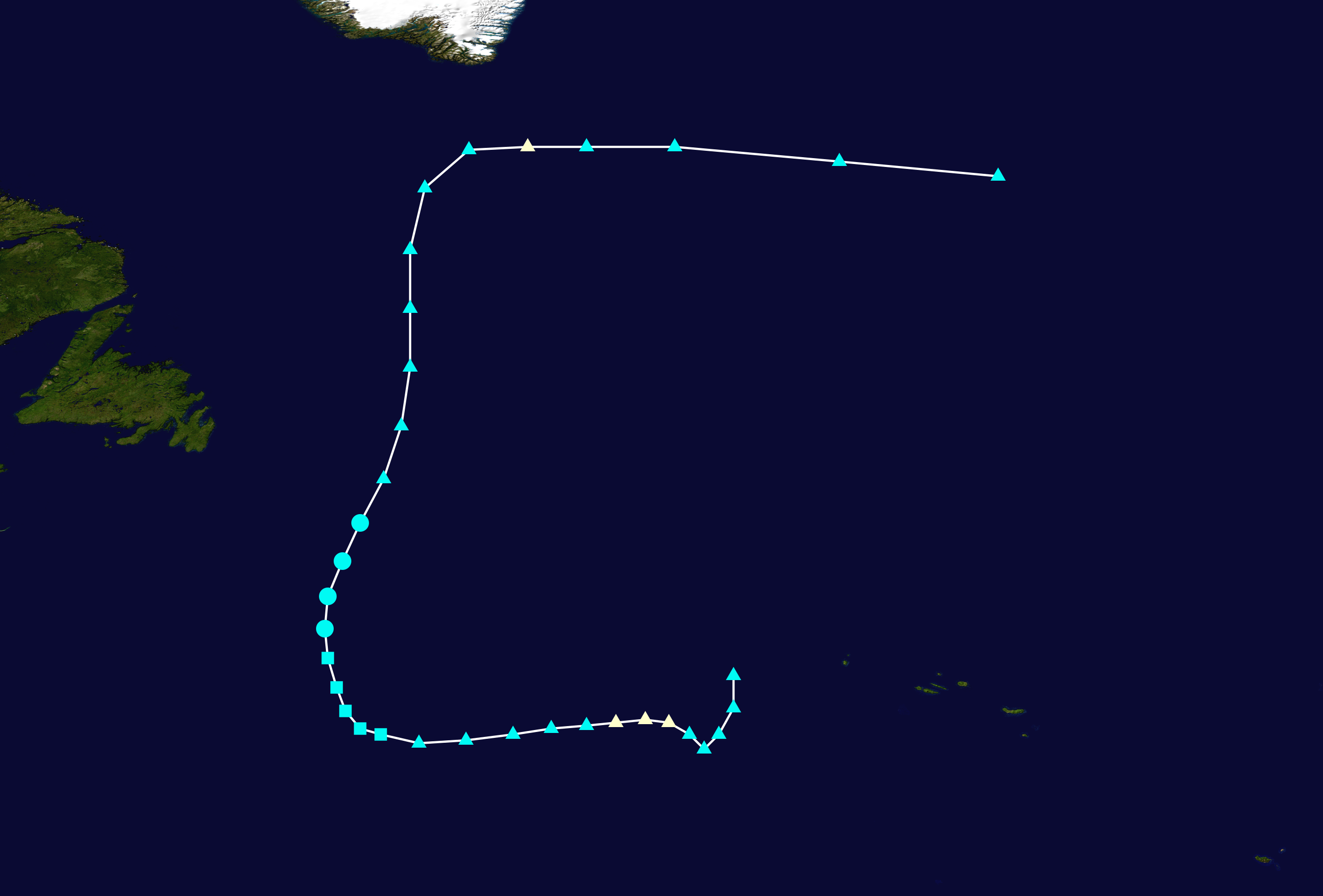 Track map of Tropical Storm Laura of the 2008 Atlantic hurricane season. The points show the location of the storm at 6-hour intervals. The colour represents the storm's maximum sustained wind speeds as classified in the Saffir–Simpson scale (see below), and the shape of the data points represent the nature of the storm, according to the legend below. Saffir–Simpson scale Tropical depression≤38 mph≤62 km/h Category 3111–129 mph178–208 km/h Tropical storm39–73 mph63–118 km/h Category 4130–156 mph209–251 km/h Category 174–95 mph119–153 km/h Category 5≥157 mph≥252 km/h Category 296–110 mph154–177 km/h Unknown Storm type Tropical cyclone Subtropical cyclone Extratropical cyclone / Remnant low / Tropical disturbance / Monsoon depression